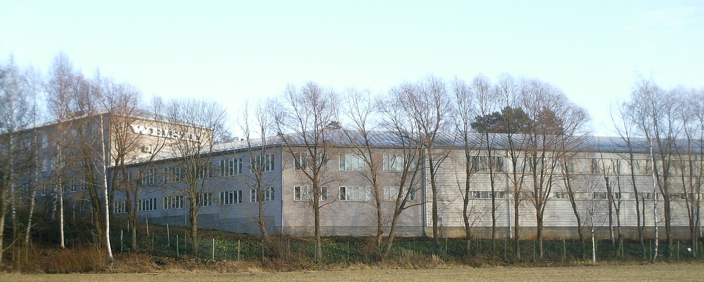 Photograph of the factory building of K. A. Weiste Oy in Helsinki.